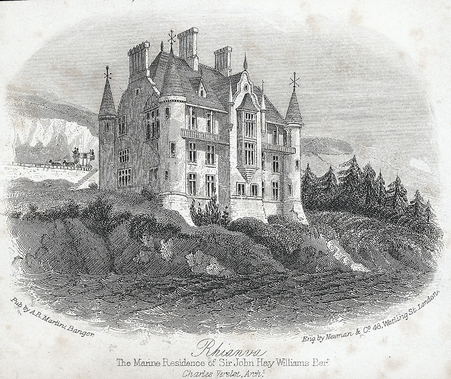 External view of house and horse-drawn carriage.